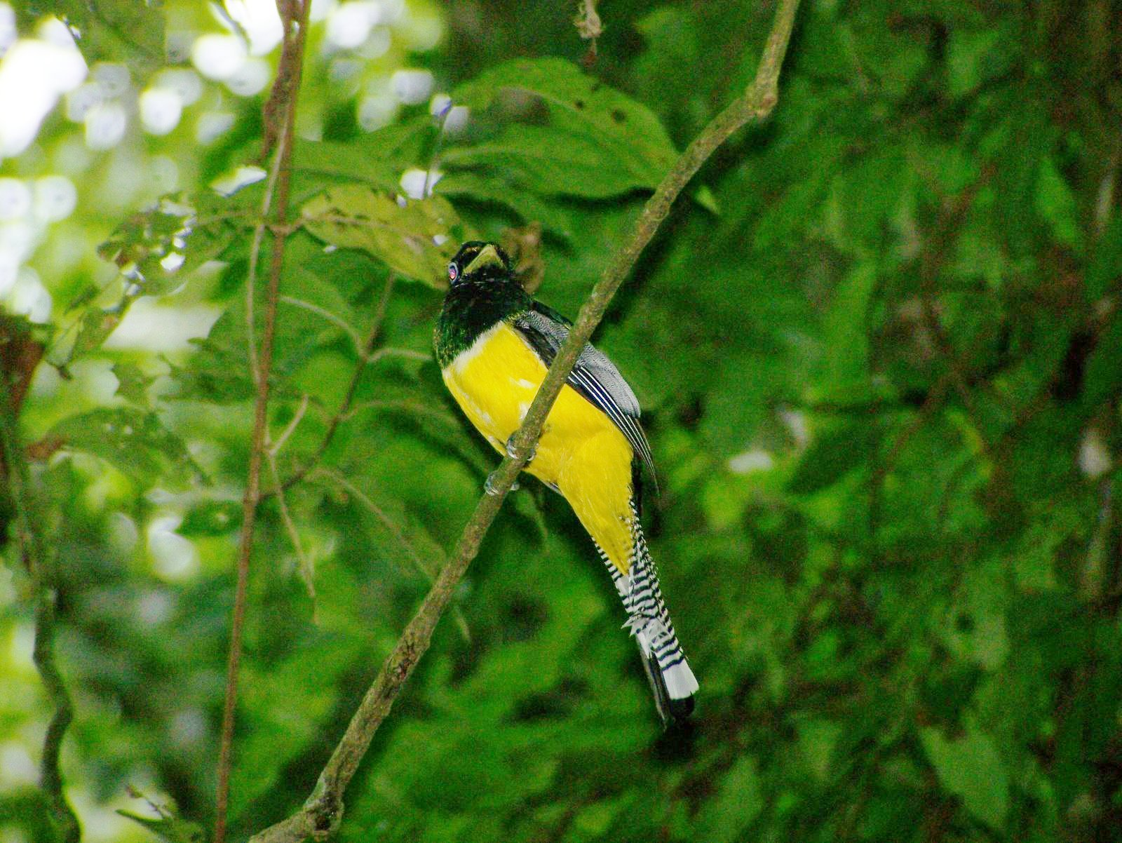 Black-throated trogon (Trogon rufus) in Carara, Costa Rica